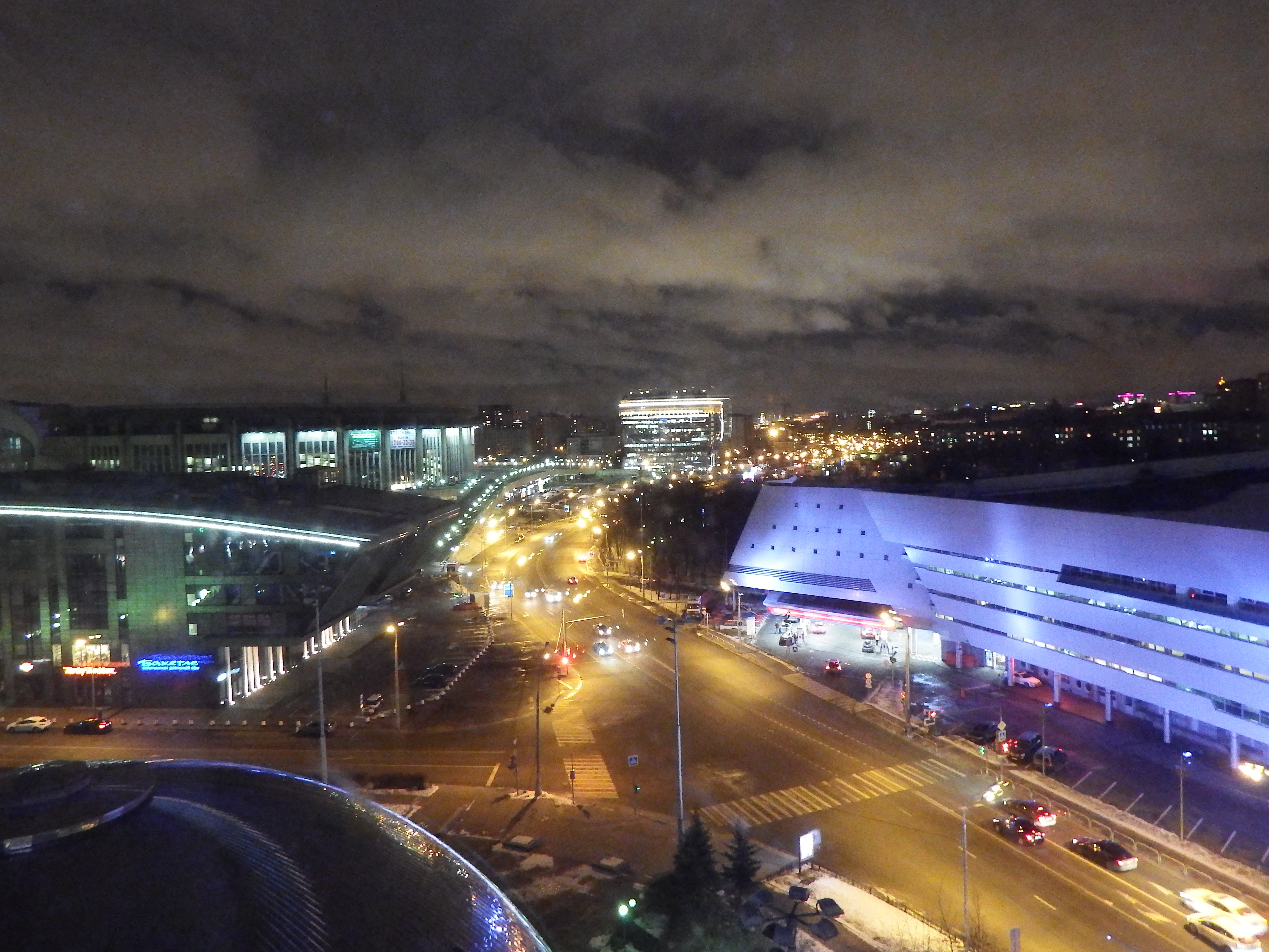 Moscow, Olimpic Avenue at night